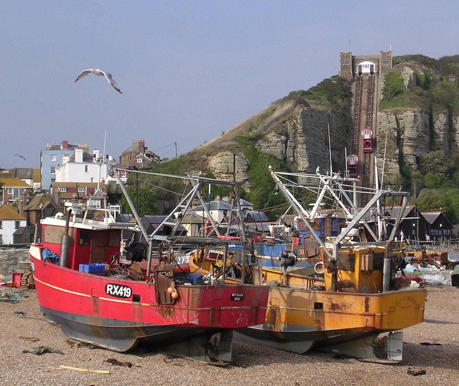 fishing boats on beach with Old Towna and cliff railway in background at Hastings